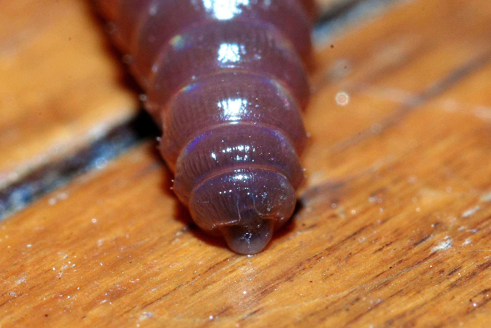 Earthworm Allolobophora chlorotica